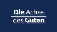 Logo of the internet-blog "Achse des Guten" /